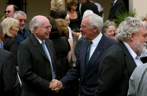 John Howard and Bill Hayden at Padraic Pearse (Paddy) McGuiness' funeral in 2008.